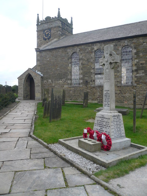 Holmesfield - Church of St.Swithin and Memorial